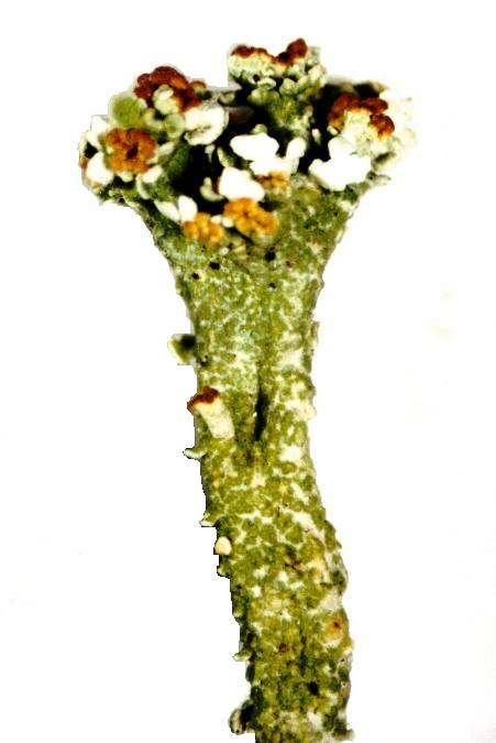 Cladonia grayi G. Merr. ex Sandst. Morphotype Photograph of a herbarium specimen taken through a dissecting microscope (x12) showing the presence of small brown pycnidia or apothecia. Assumed to be Cladonia grayi which is the most prevalent chemical variant of a complex that includes: C. chlorophaea, C. cryptochlorophaea, and C. merochlorophaea. This specimen was growing on soil in a clearing N of Wards Chapel Road at the Soldiers Delight Natural Environment Area, Owings Mills, Baltimore County, Maryland, USA (N 39o25.136', W 76o50.717'). Collected and identified by E.C. Uebel (No. U-458, 25 Jun 2003).